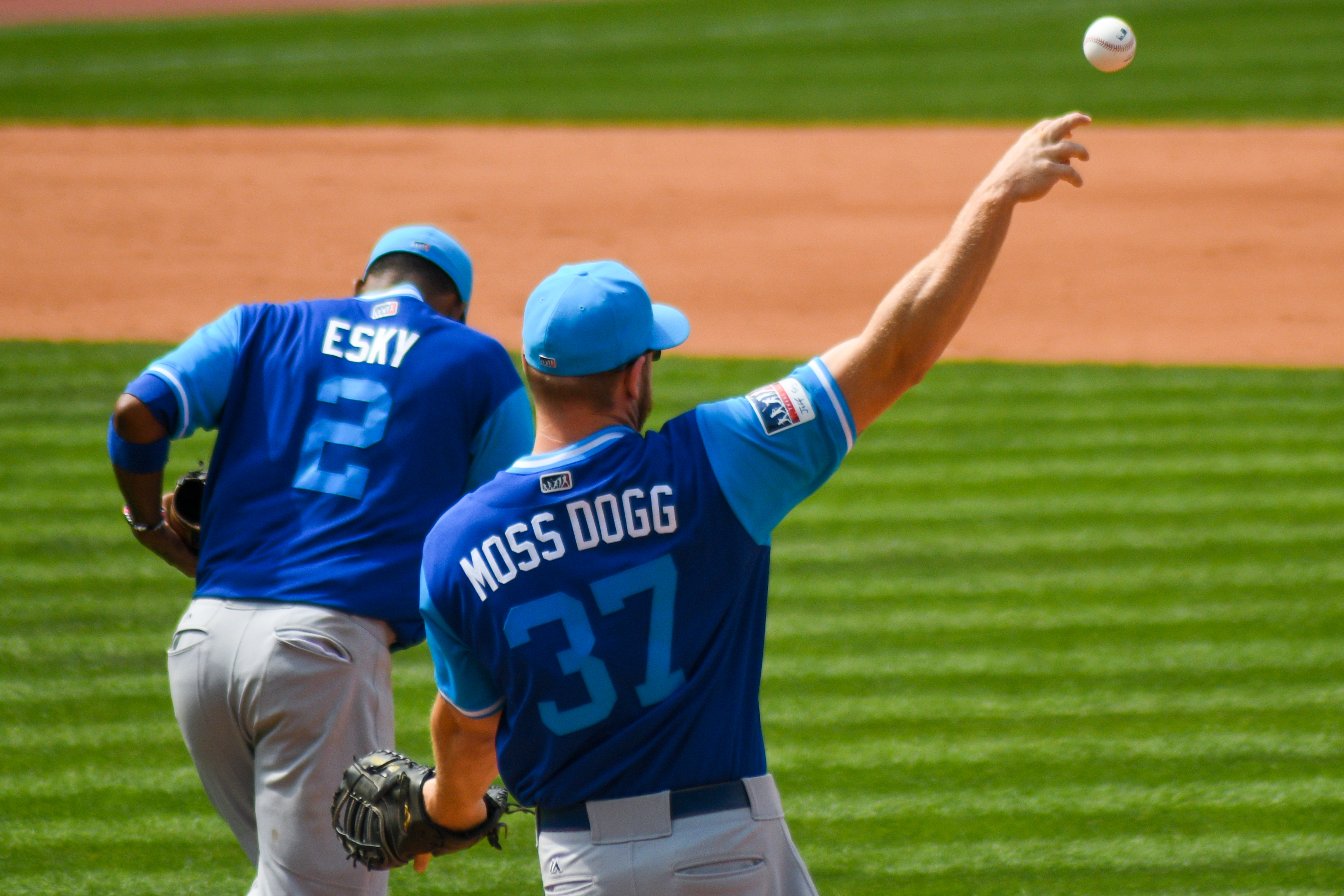 Alcides Escobar (left) and Brandon Moss (right) wear their nicknames on their jerseys on MLB Players Weekend, August 27, 2017